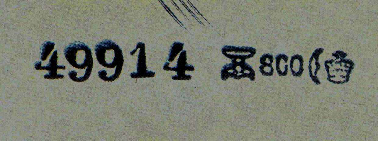 Silver-mark, Bremen (Germany), 1906